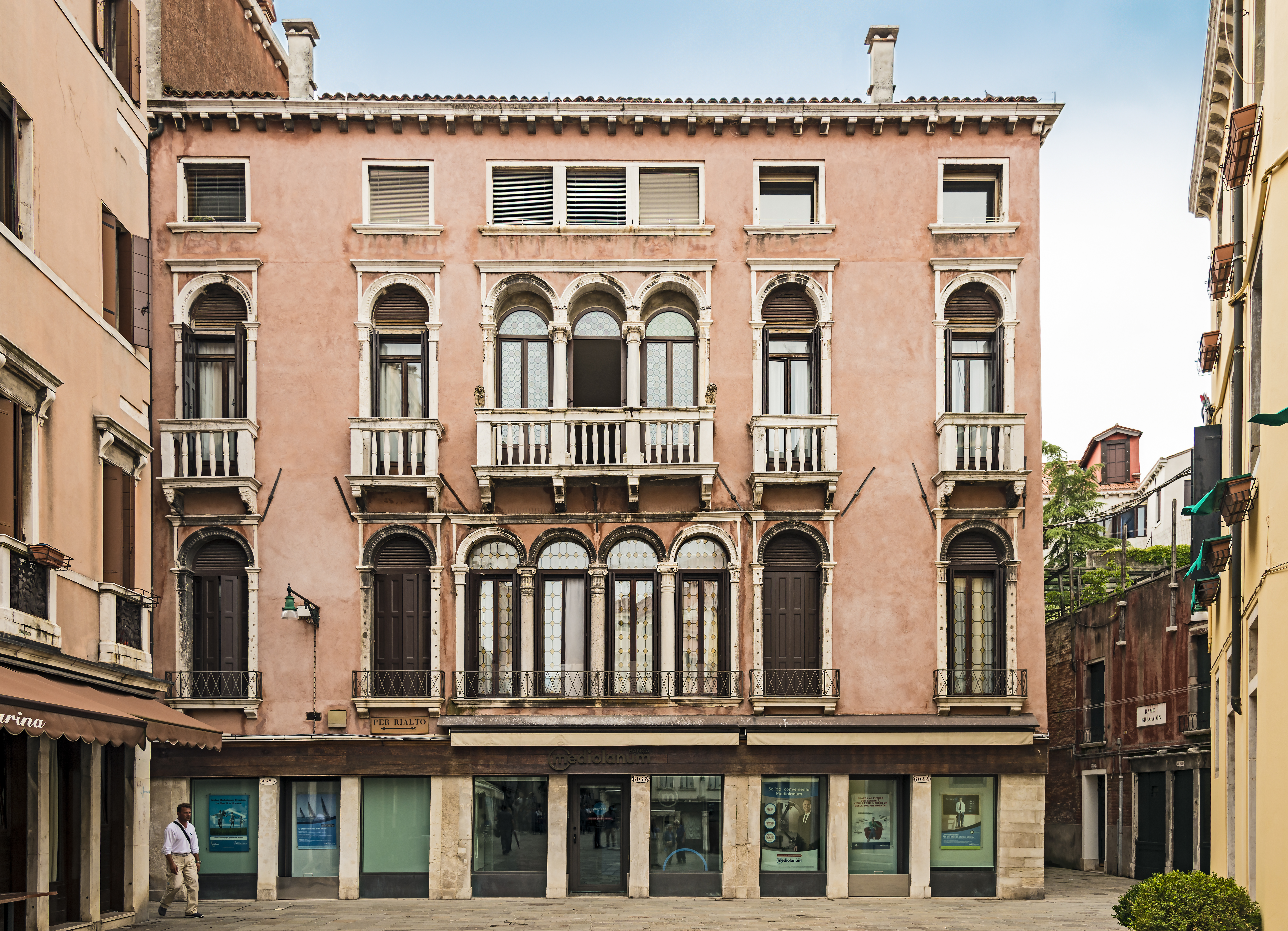 Palace Loredan in Santa Marina Venice, facade on campo santa Marina.